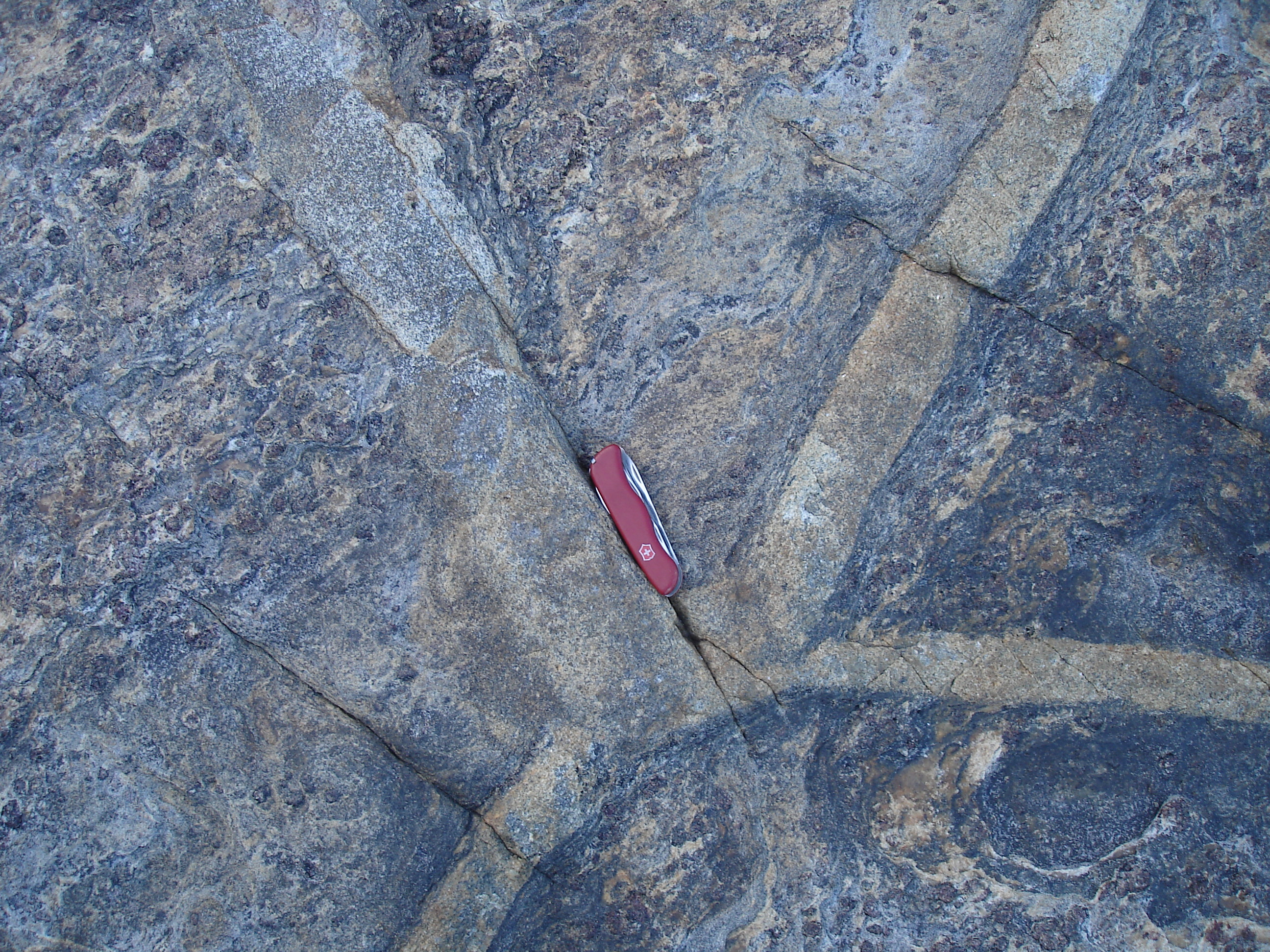 Aplite cross cutting a kinzigite. Local:Morro dois Irmãos Park, Rio de Janeiro City, Brazil Author:Eurico Zimbres Free for all use